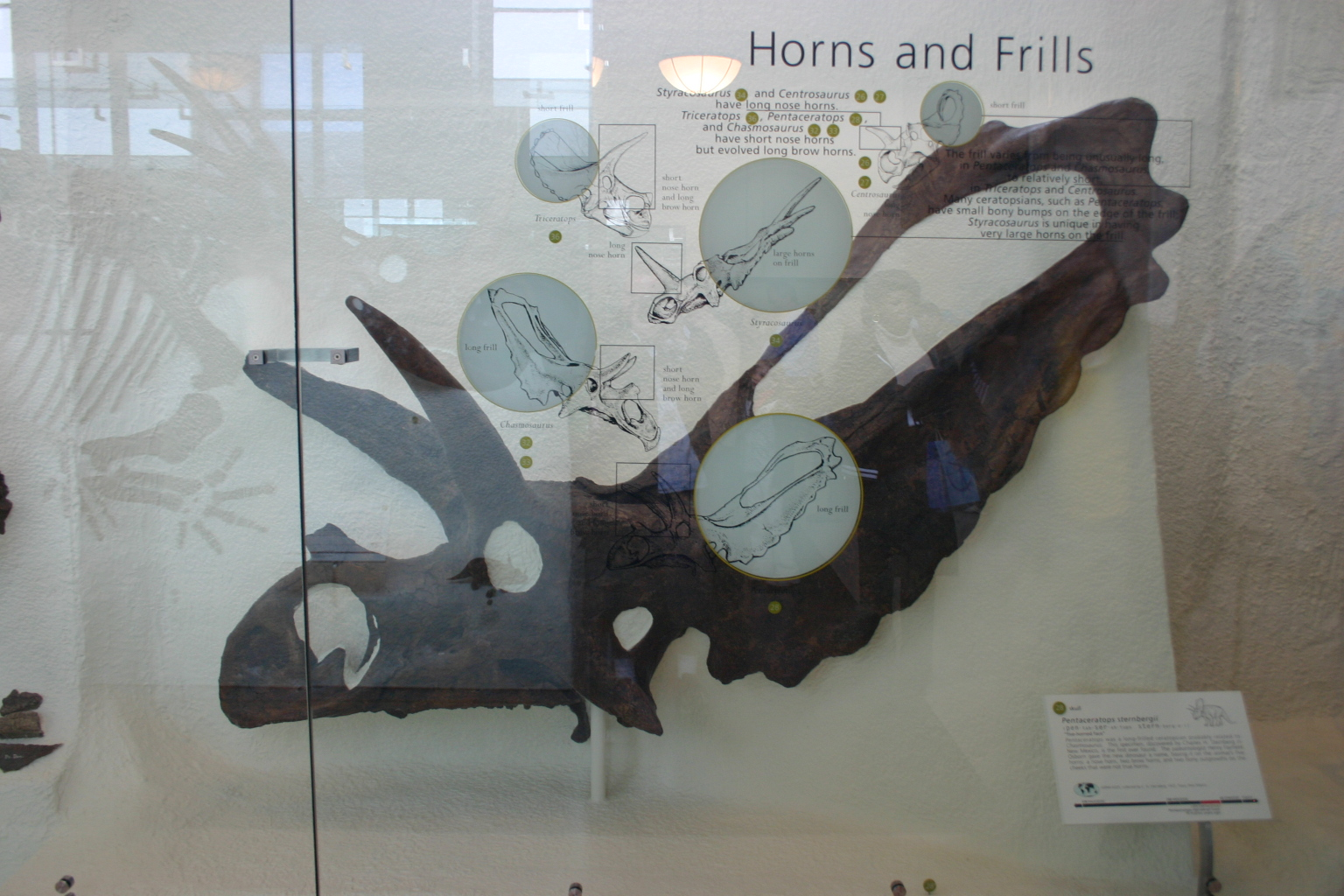 five-horned face Visit my blog at